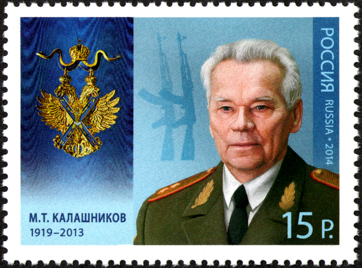 Recipients of the Order of St. Andrew the Apostle the First-Called (the ongoing series, issue IV). Mikhail Kalashnikov[1] (1919–2013), a Soviet and Russian designer of small arms, the creator of the AK family of assault rifles. There depicted the badge of the Order of St. Andrew on the left. The stamp of Russia, 15.00 Rubles, 24 October 2014, PTC Marka Catalogue No 1883. Coated paper. Offset printing, varnish coating. Perforation: comb 12×11½. Size of the stamp: 50×37 mm. Print run: 374,000.